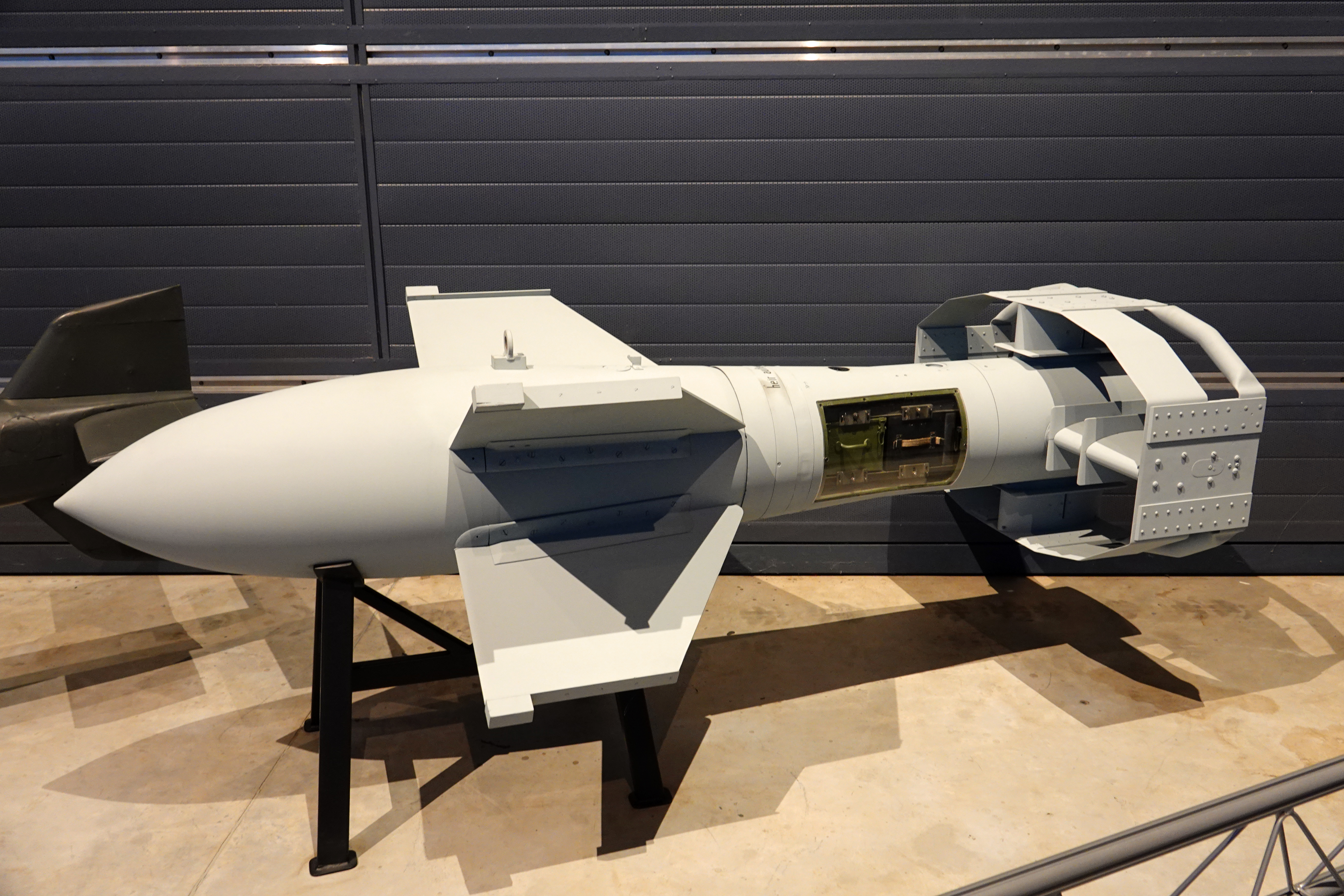 The Fritz X also known as the Ruhrstahl X-1, was a precision-guided, armor-piercing bomb used with deadly effect by Germany in World War II against Allied ships in the Mediterranean. Based on the PC 1400 bomb, the Fritz X was dropped from an aircraft and guided by an operator using a joystick and transmitter. The spoilers on the cruciform tail controlled the bomb’s trajectory. Germany’s first and most spectacular success with the Fritz X came in September 1943, when Do 217 aircraft sank the Italian battleship Roma and damaged the battleship “Italia” as they were sailing to surrender to the Allies. Air defenses against Do 217s, which had to ﬂy slow and level while controlling the bomb, soon made further use of it impossible. The Smithsonian obtained this Fritz X from the U.S. Navy Bureau of Aeronautics. Picture taken at the National Air and Space Museum's Steven F. Udvar-Hazy Center in Chantilly, Virginia, USA.